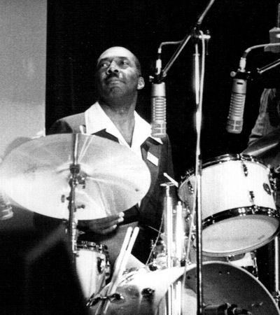 American Chicago blues drummer Odie Payne in Montreux, Switzerland.